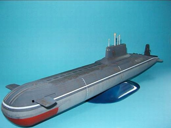 SSBN U-Boot Typhoon-Klasse